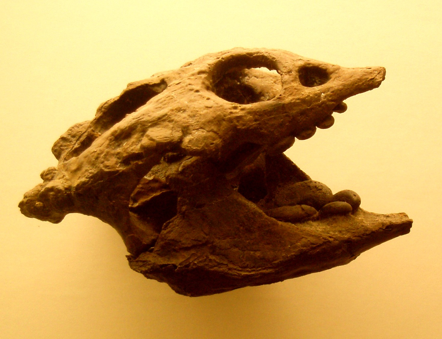 Fossil of Psephoderma (Macroplacus raeticus), an extinct placodont